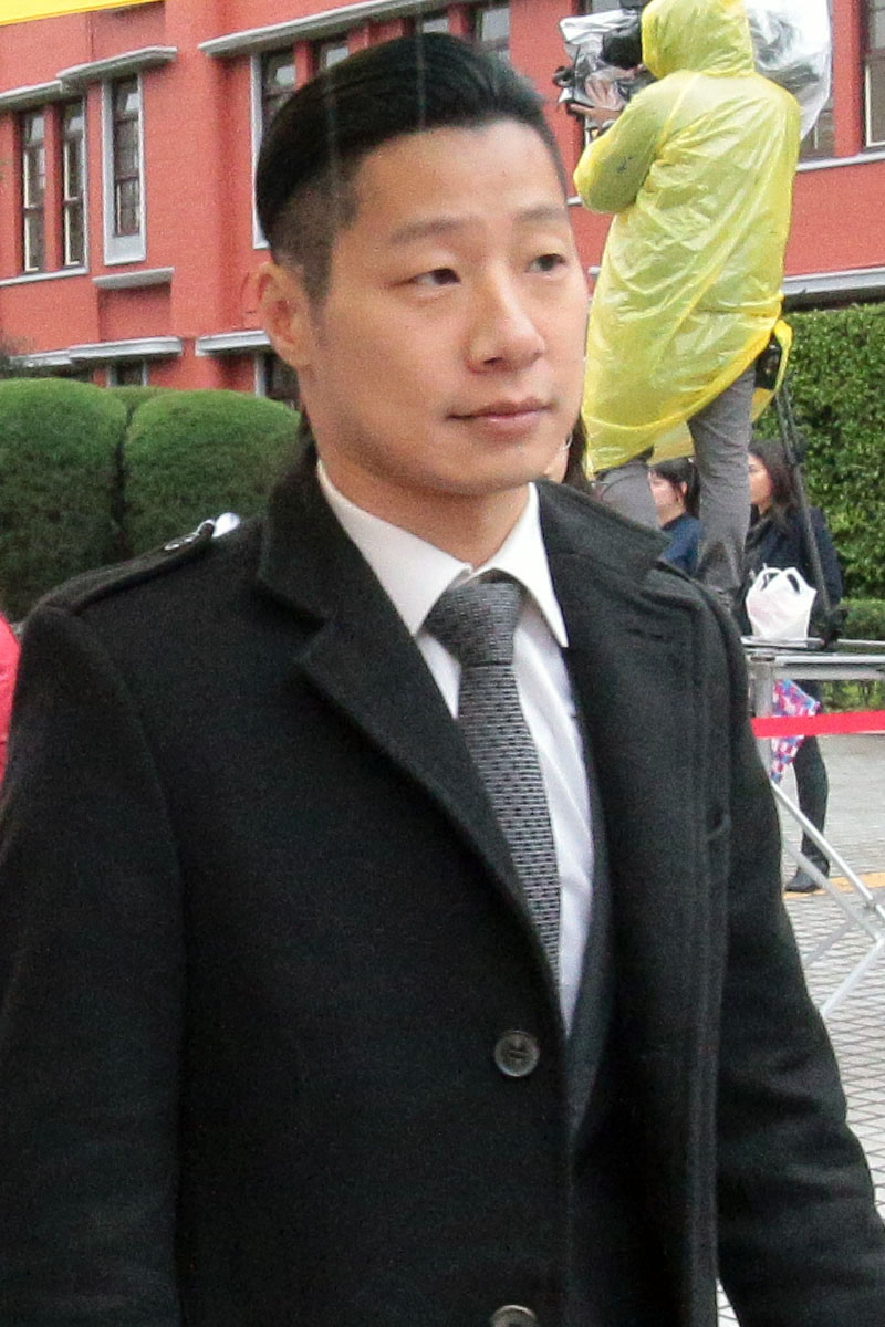 Picture of Freddy Lim on Feb.1st 2016 the day he took office as a member of Legislator Yuan(Parliament) in Taiwan.